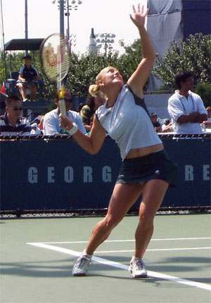 Self Made picture of Anastassia Rodionova playing at the 2004 U.S. Open